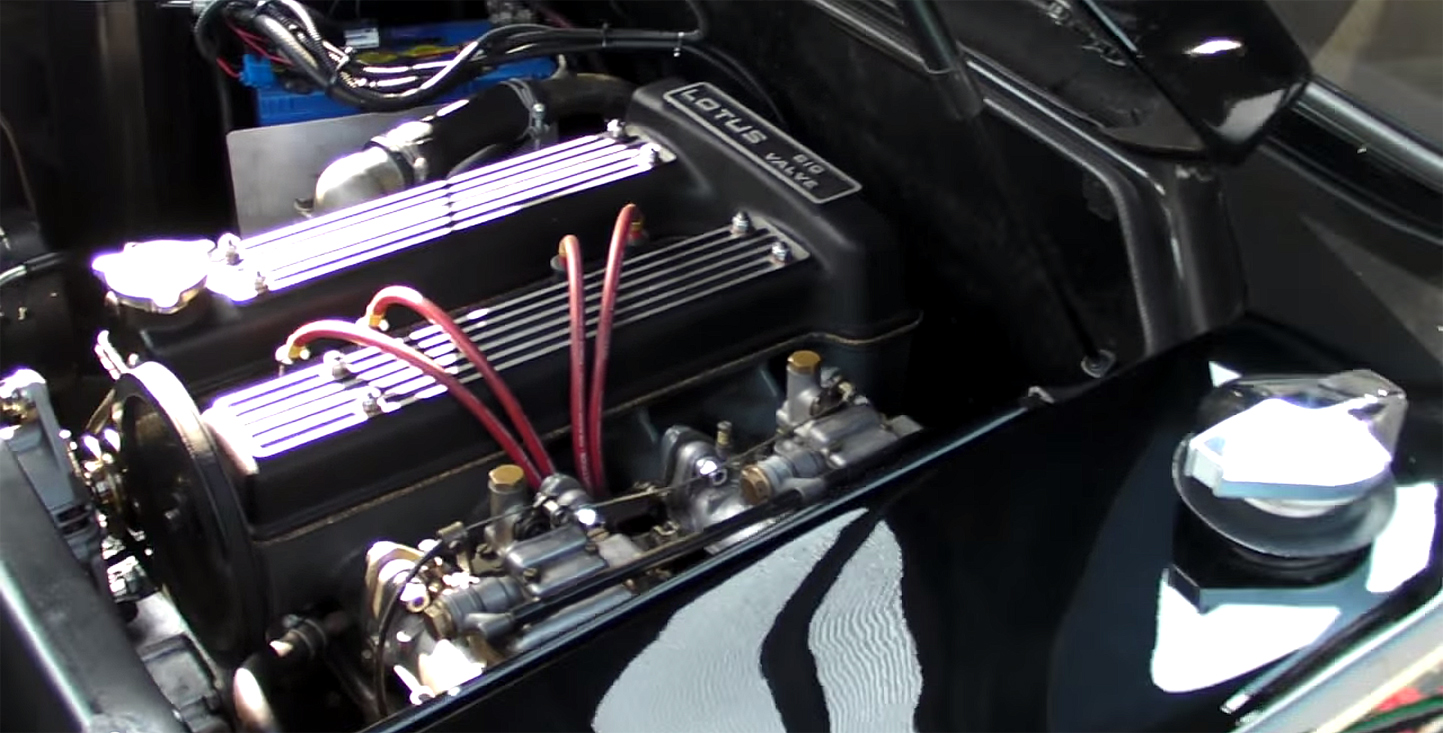 LotusEuropa LotusTwincam Engine